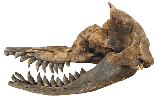 A well preserved skull of Acrophyseter deinodon from the Pisco Formation, Sud-Sacaco, Peru, showing large teeth on both the upper and lower jaw.